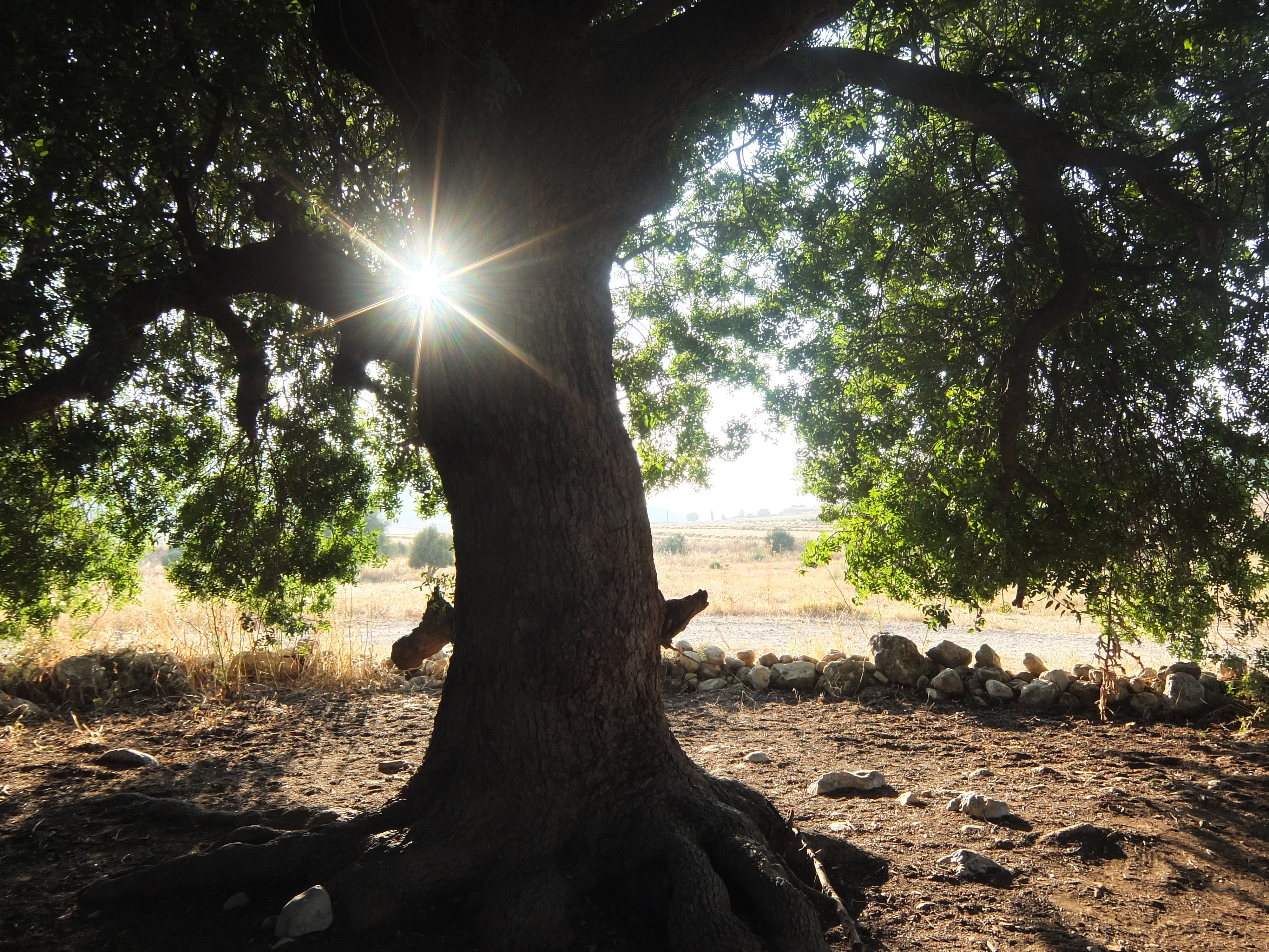 Beneath the boughs of a shady mastic tree in the Elah Valley, Israel